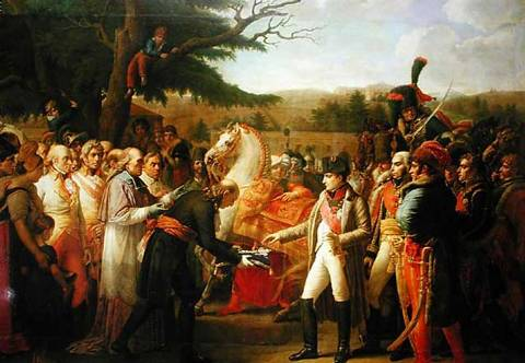 Napoleon receives the keys of Vienna (1805)